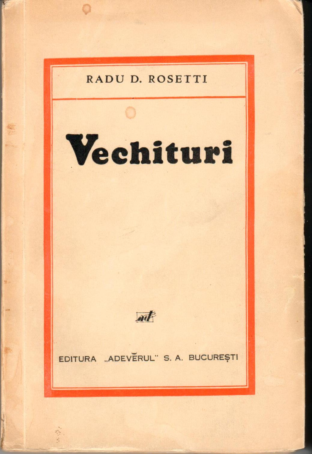 Book cover